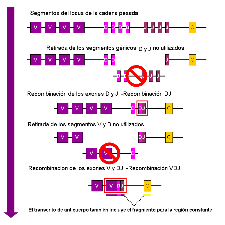 Simplistic overview of V(D)J recombination